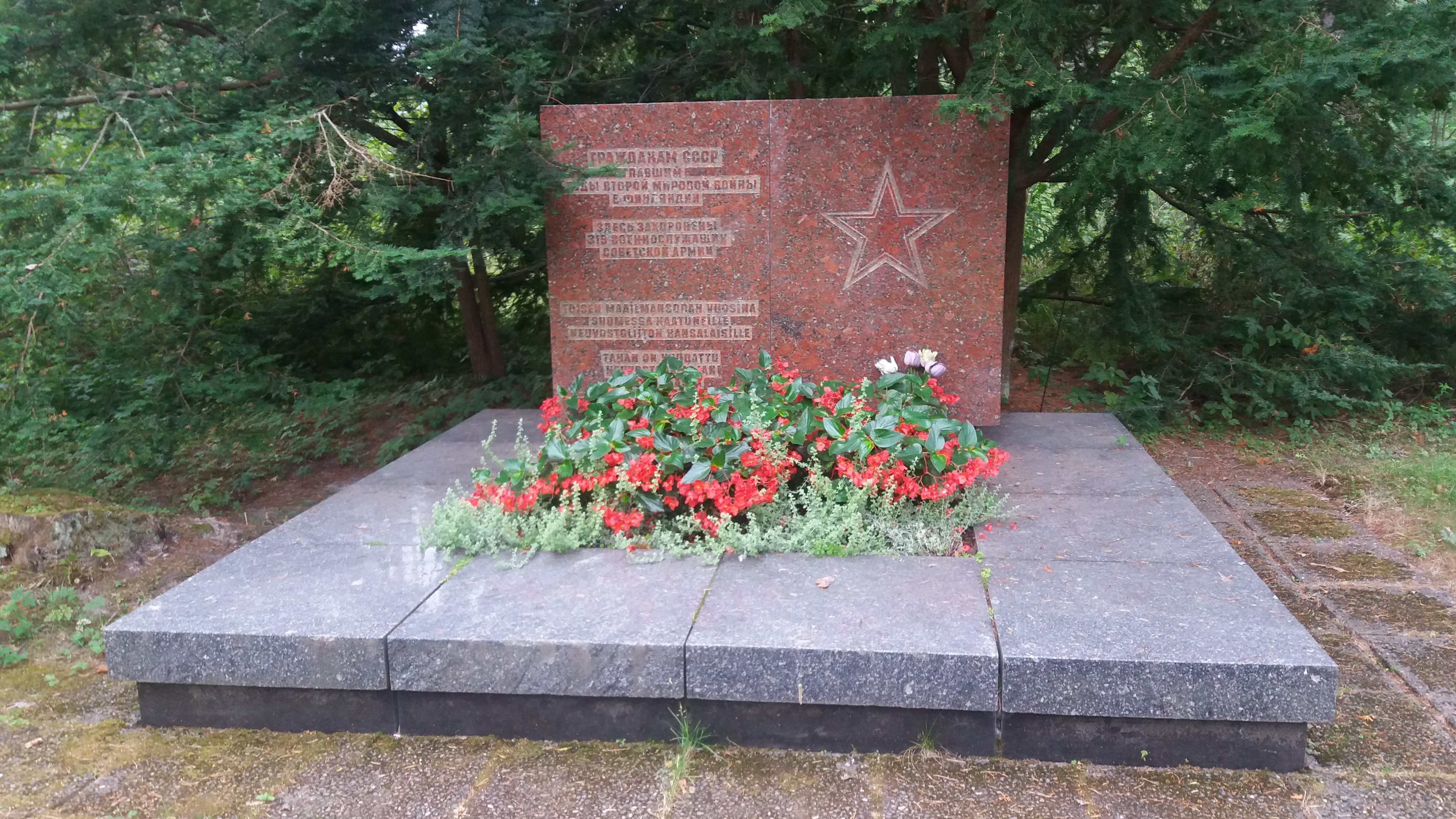 Soviet war memorial in Pori, Finland. The mass grave of 319 Soviet prisoners-of-war who died in the Finnish-German forced labor camp #22 in Pori between 1942 and 1944. The monument was erected by the state of Soviet Union in 1983 replacing the original memorial.